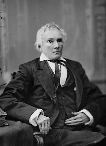 Alexander Hamilton Stephens. Cropped from Library of Congress image.